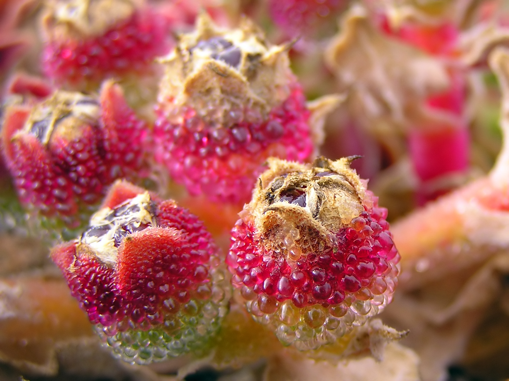 Mesembryanthemum crystallinum, detail of flower heads showing globules. Photographed in the wild in the La Geria region of Lanzarote.